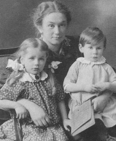 Photograph of the Finnish economist Laura Harmaja née Genetz (1881–1954) with two of her children.